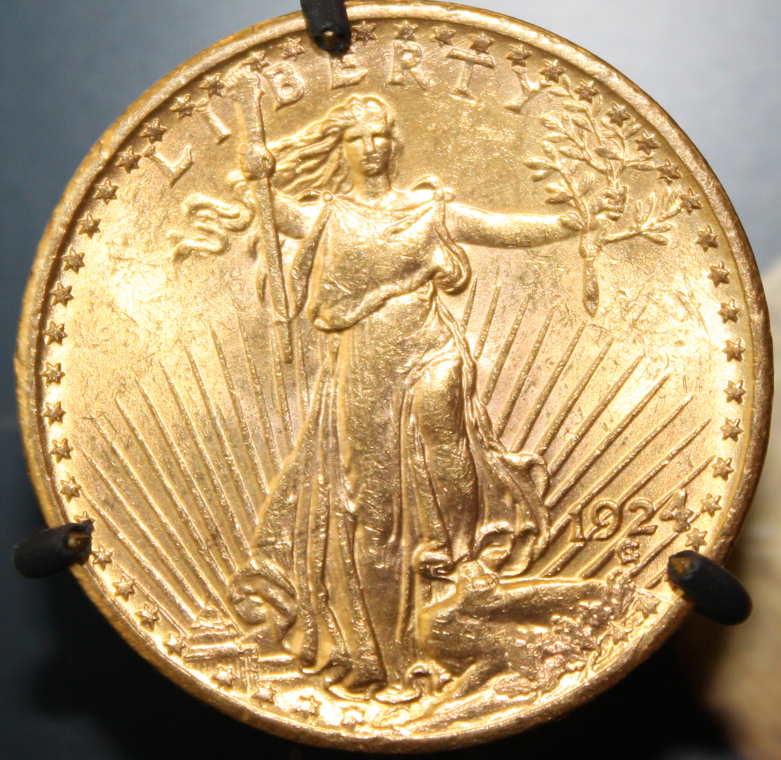 1924 double eagle.